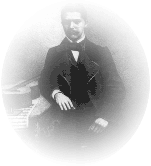 A photograph of Spanish classical guitarist and composer Julián Arcas.